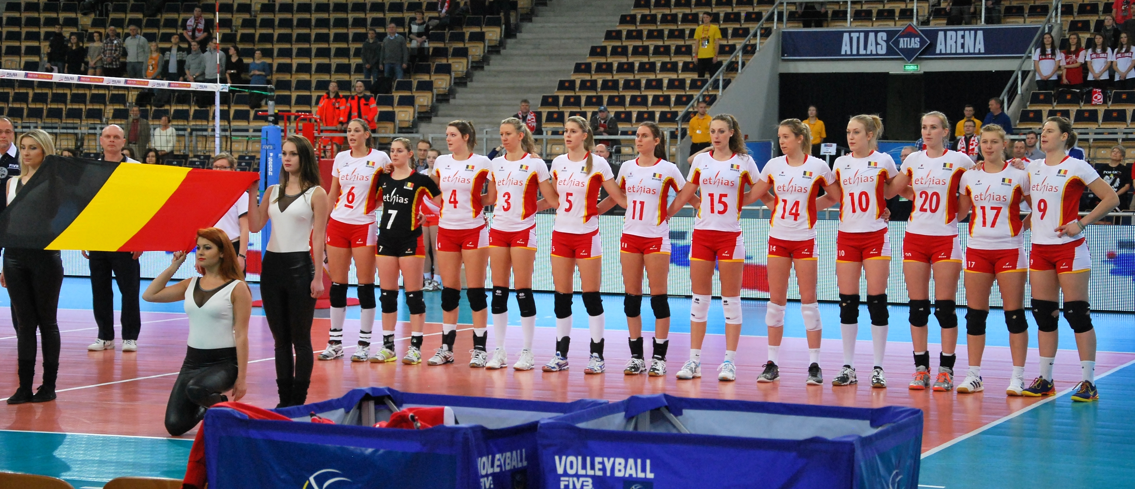 FIVB World Championship European Qualification Women Łódź January 2014. Belgium volleyball women national team